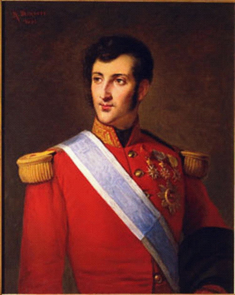 Portrait of Prince Honore V of Monaco, 1778-1841